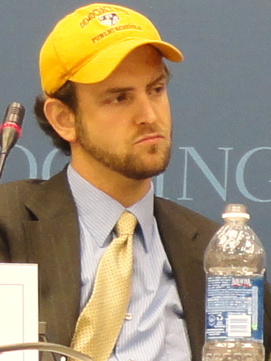 The achievement gap between minority and non-minority students is a hot topic in education. Monday's Brookings Institution panel informed its audience civic ignorance is a big player in that disenfranchisement - the "gap" is wider in civics than in other subjects.